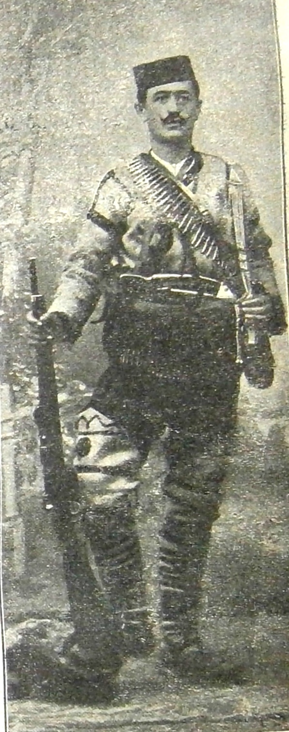 Ilija_Jovanovic